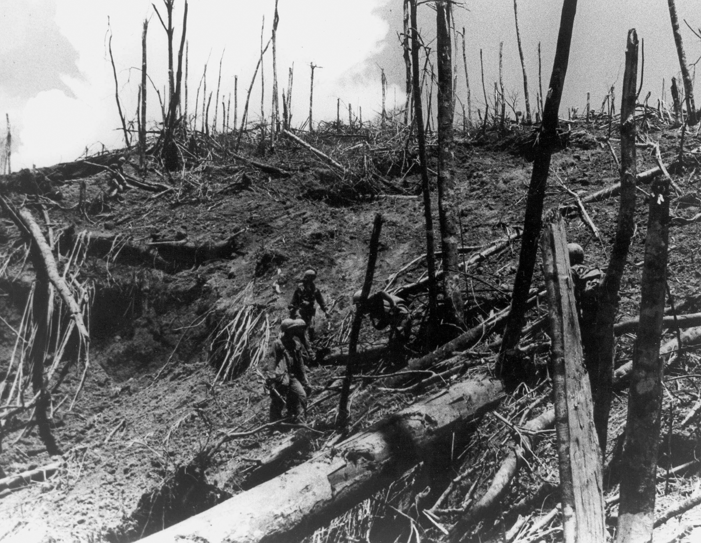 Impact of War! This image shows Troopers inspecting the damage in the surrounding area of Dong Ap Bia during Operation Apache Snow, May 1969. (Melvin Zais Photograph Collection). (Photo Credit: USAMHI)